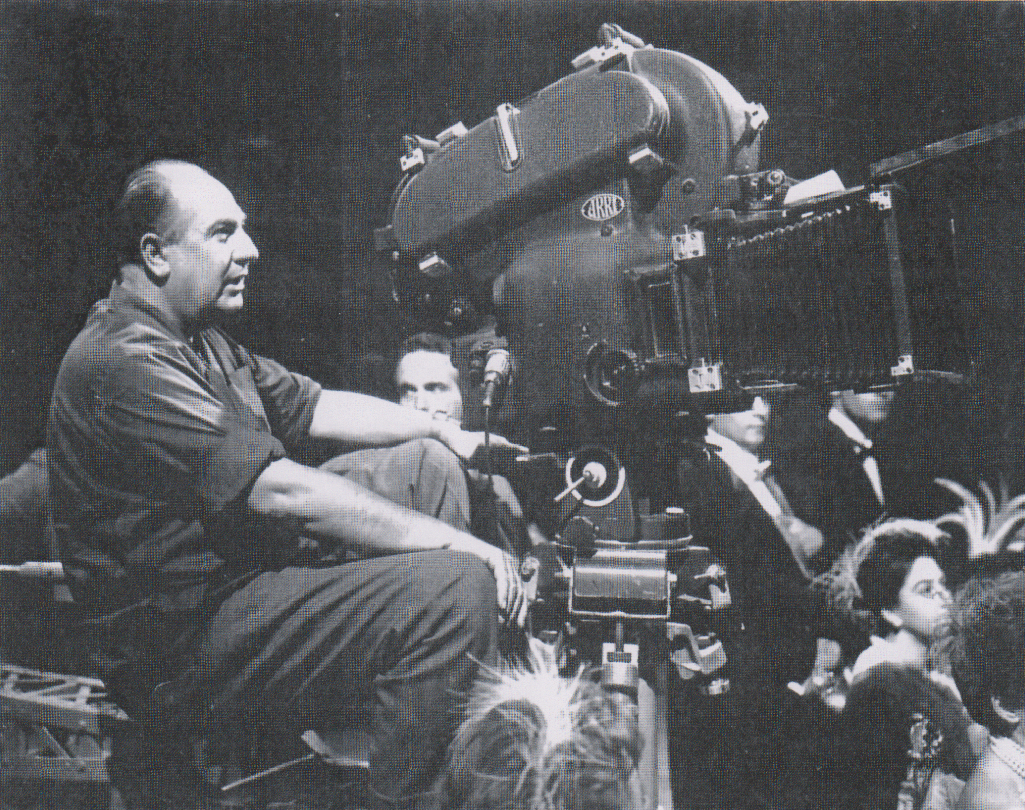 Rafael Gil directing, on 1962, 'La Reina del Chantecler'